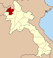 Map of Laos highlighting the province Louang Namtha.